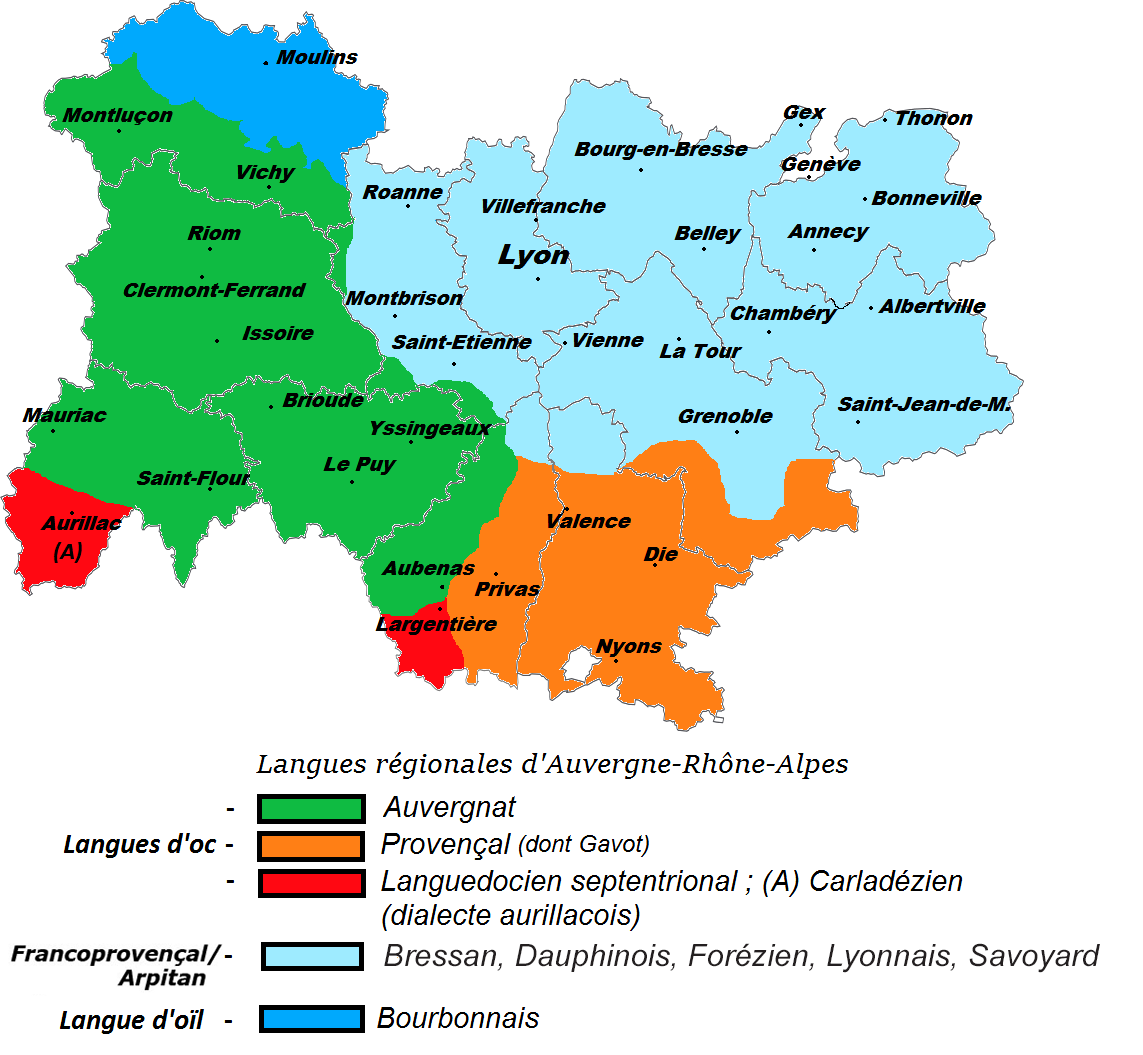 Languages of Auvergne-Rhône-Alpes region. Langues régionales d'Auvergne-Rhône-Alpes.